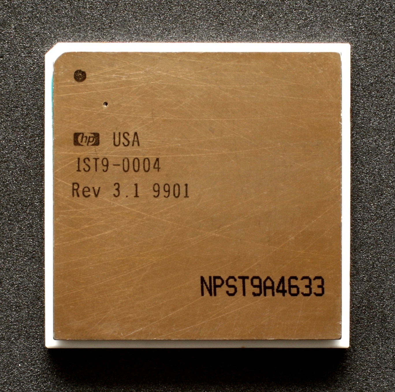 CPU Hewlett Packard PA-8000